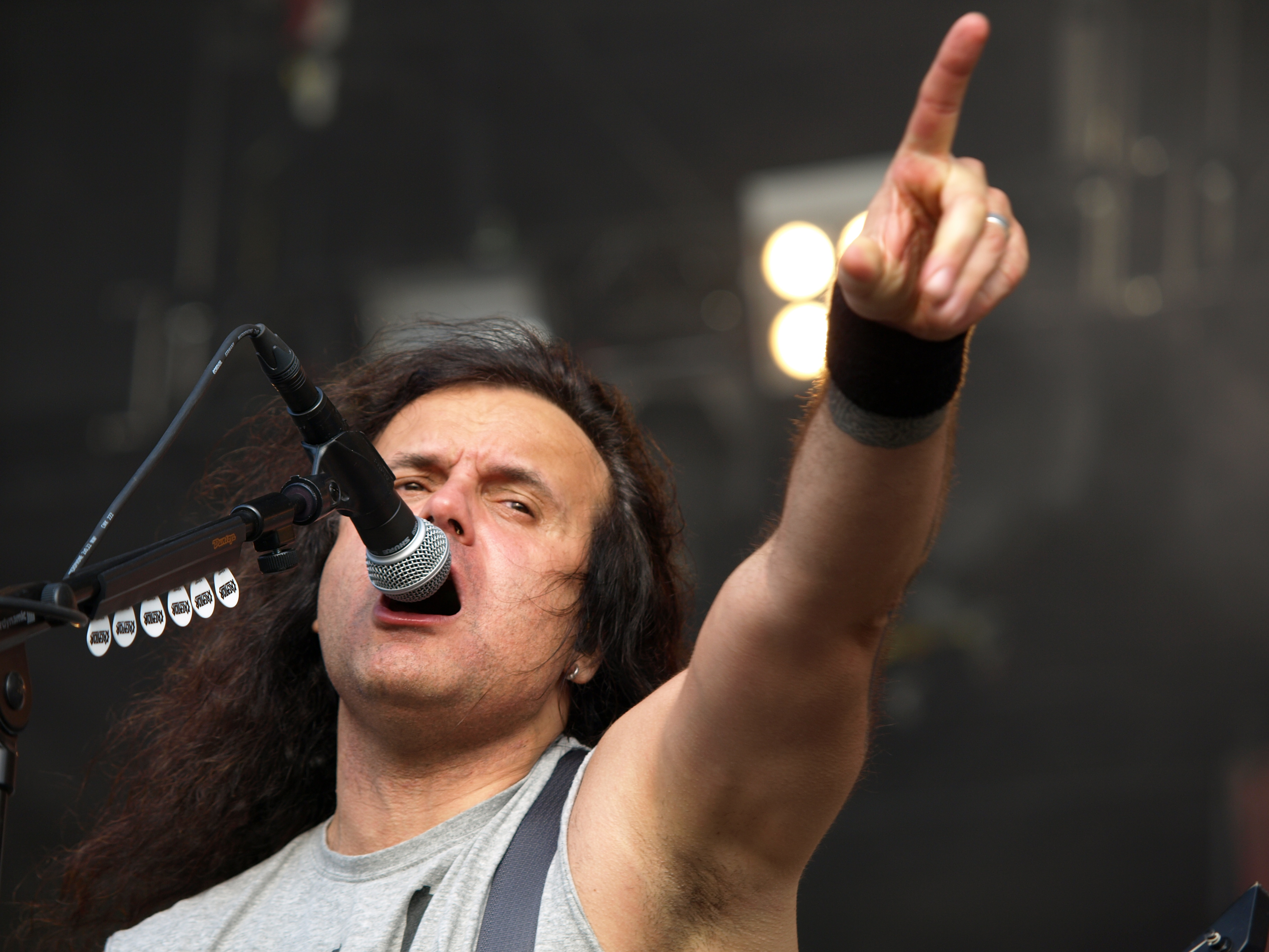 German thrash metal band Kreator live at Tuska Open Air 2013